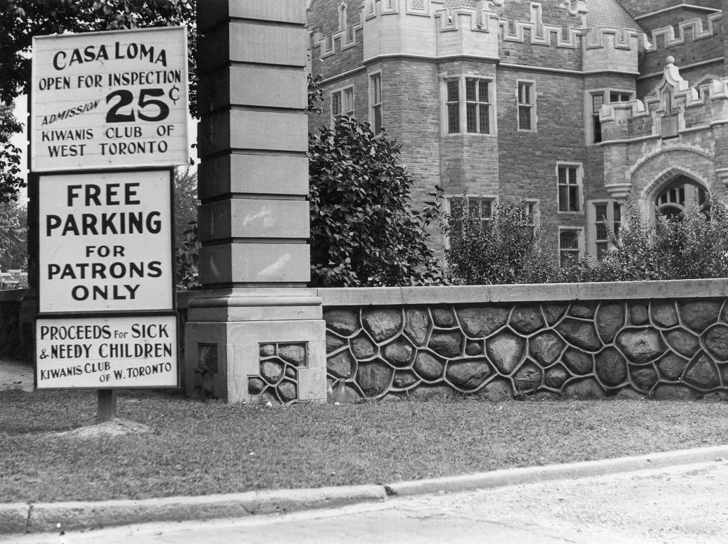 Photographs: Kiwanis Club sign at Casa Loma, 1 Austin Terrace, Toronto, Ontario, Canada; circa 1937; Fonds 1244, Item 4119.